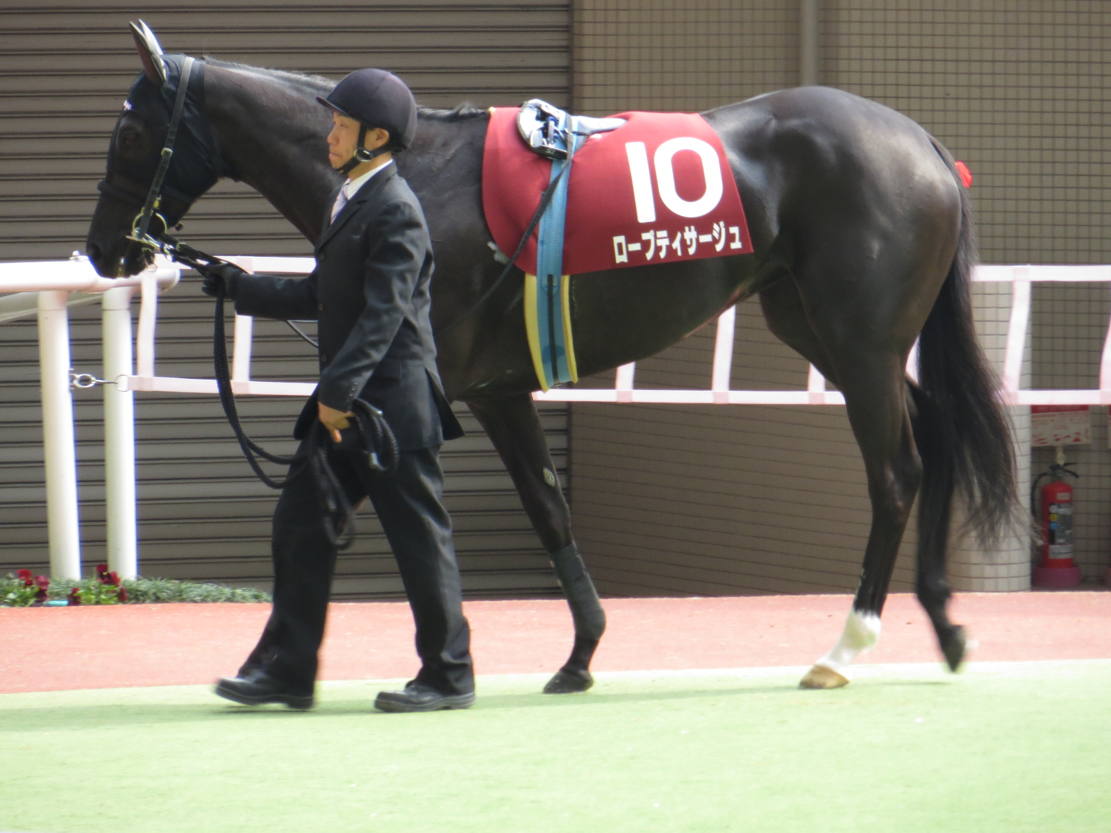 Robe Tissage (Racehorse of Japan).